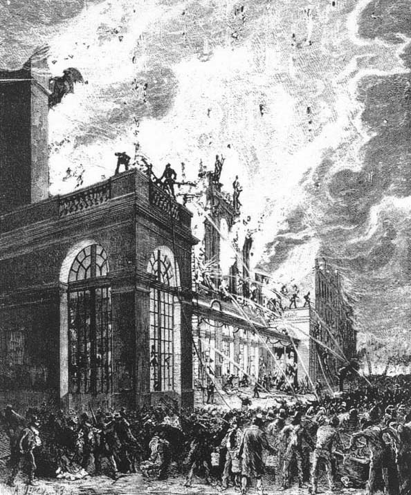 Lithograph by unknown, 1873. Paris Opera (salle Le Peletier) fire, october 29, 1873, as seen from the right façade.